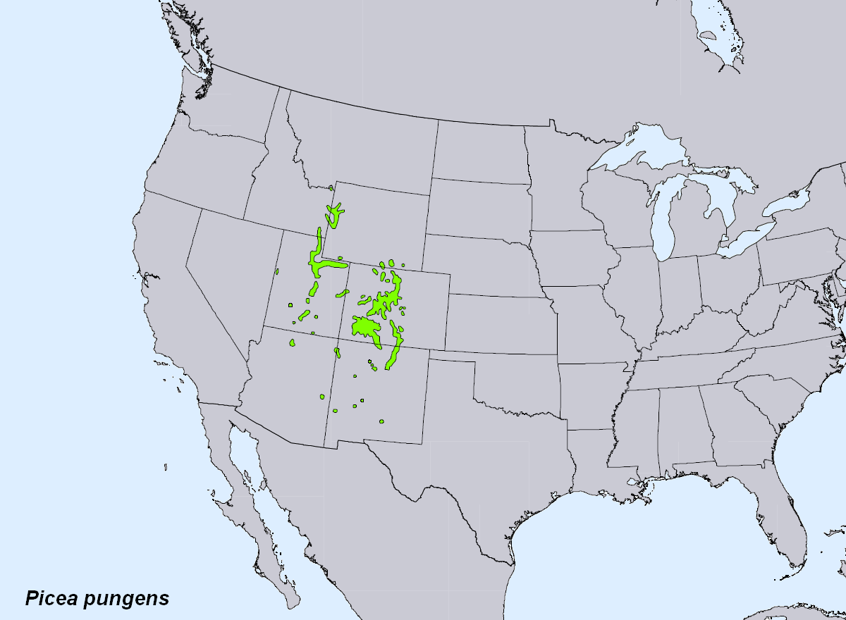 Range map of Blue spruce — Picea pungens.